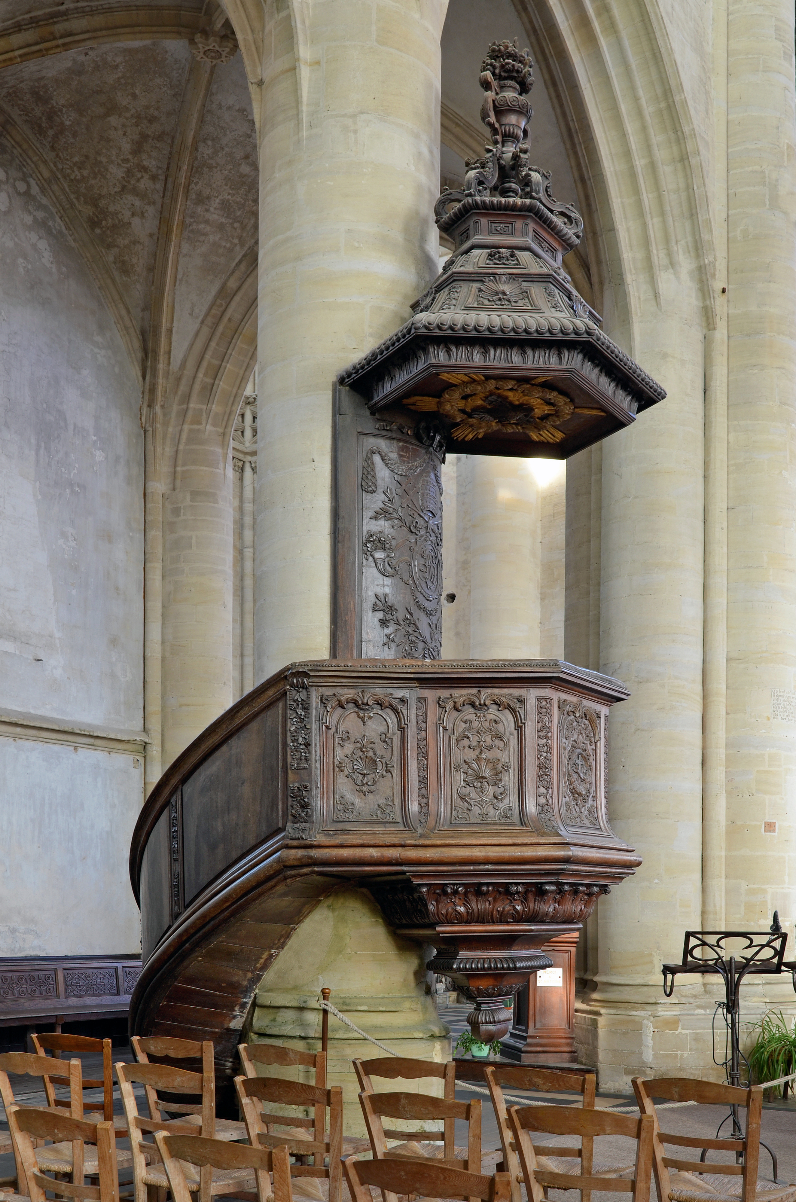 Pulpit in Saint-Pierre church - Coutances, Manche, France.